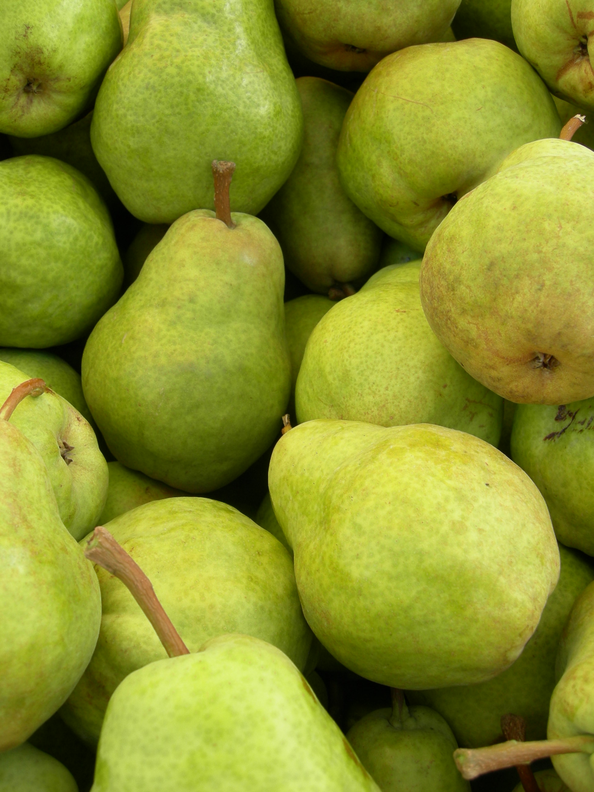 Organic Bartlett pears (Williams Bon Chrétien pears), Seattle Tilth Harvest Festival, Meridian Park (adjacent to the Good Shepherd Center), Wallingford, Seattle, Washington.